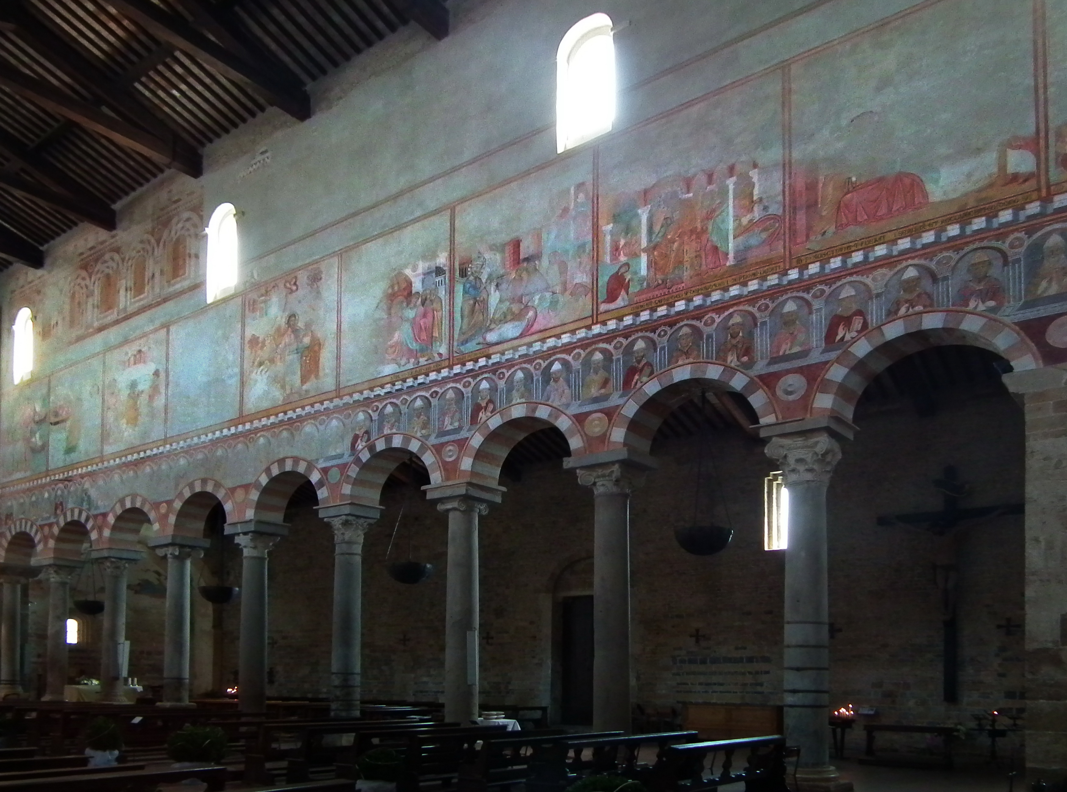 Church of Saint Peter a Grado Native nameChiesa di San San Piero a GradoLocationPisa, Tuscany, ItalyCoordinates43° 40′ 47″ N, 10° 20′ 48″ E Established1800 Authority control : Q810100 VIAF: 127135507 LCCN: nr2002013158 GND: 4461395-7 WorldCat institution QS:P195,Q810100